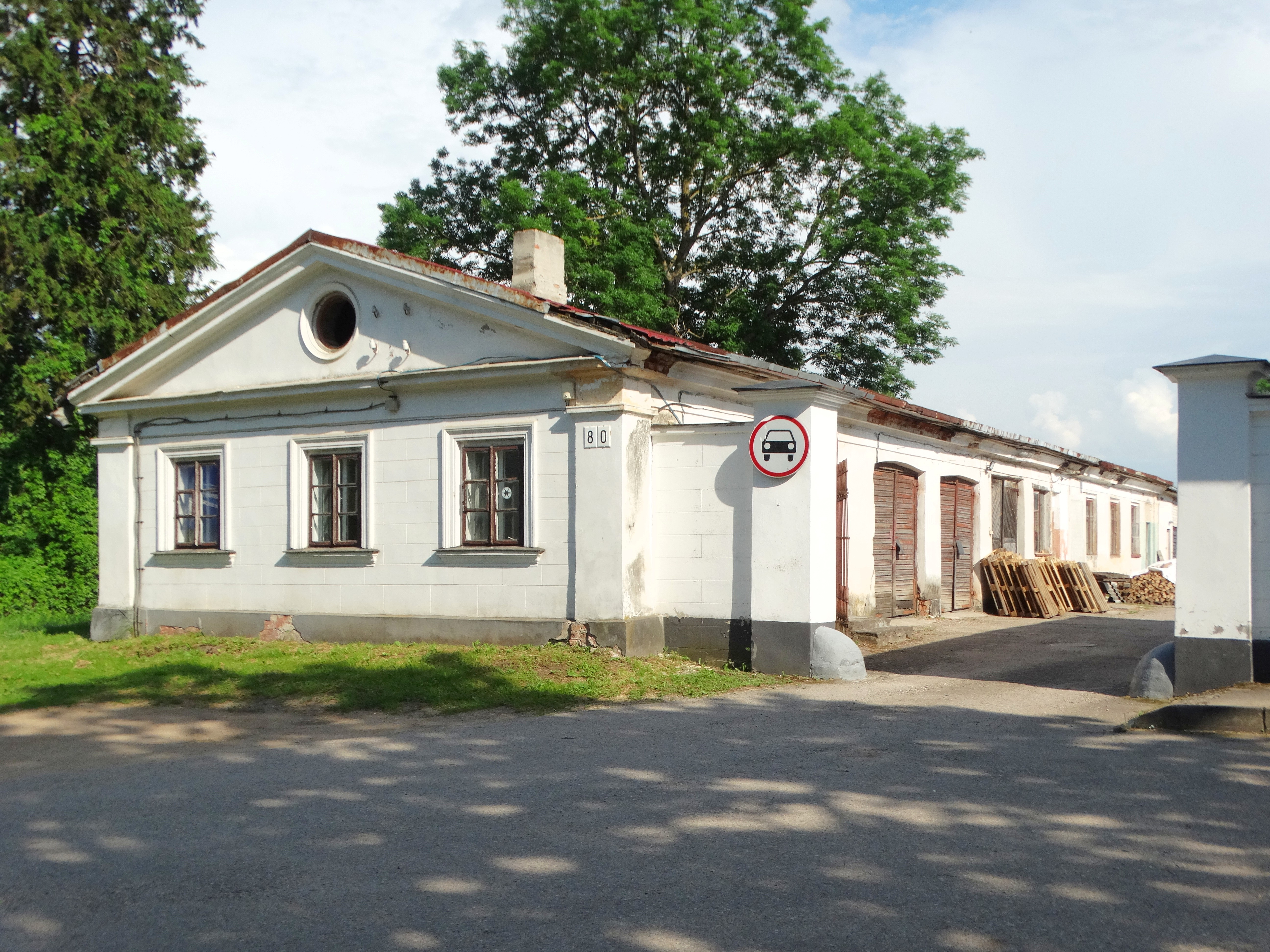 Former post station by the road St. Petersburg-Warsaw in Ukmergė, Lithuania